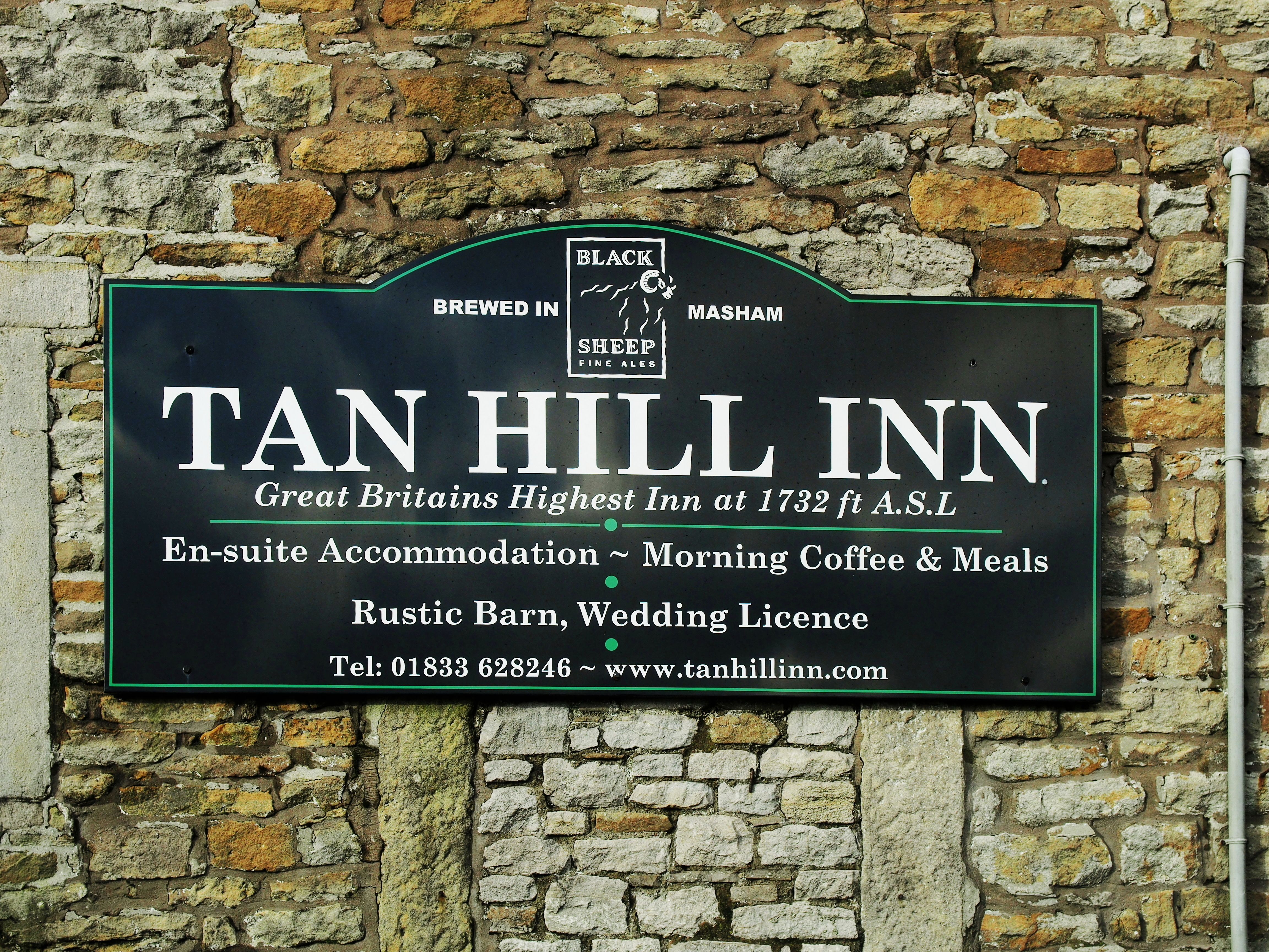 Tan Hill Inn Sign, 2013